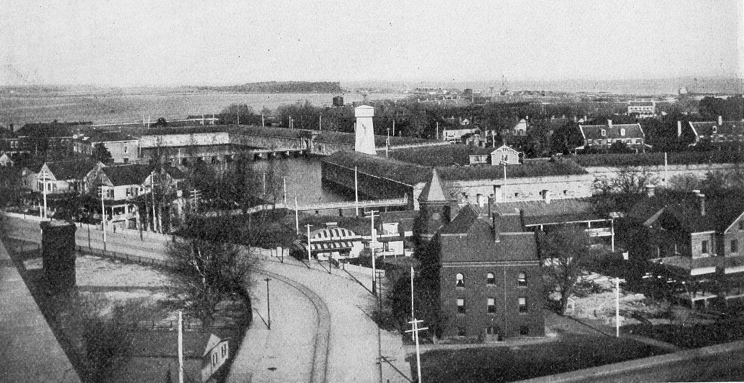 Fort Monroe, Virginia.